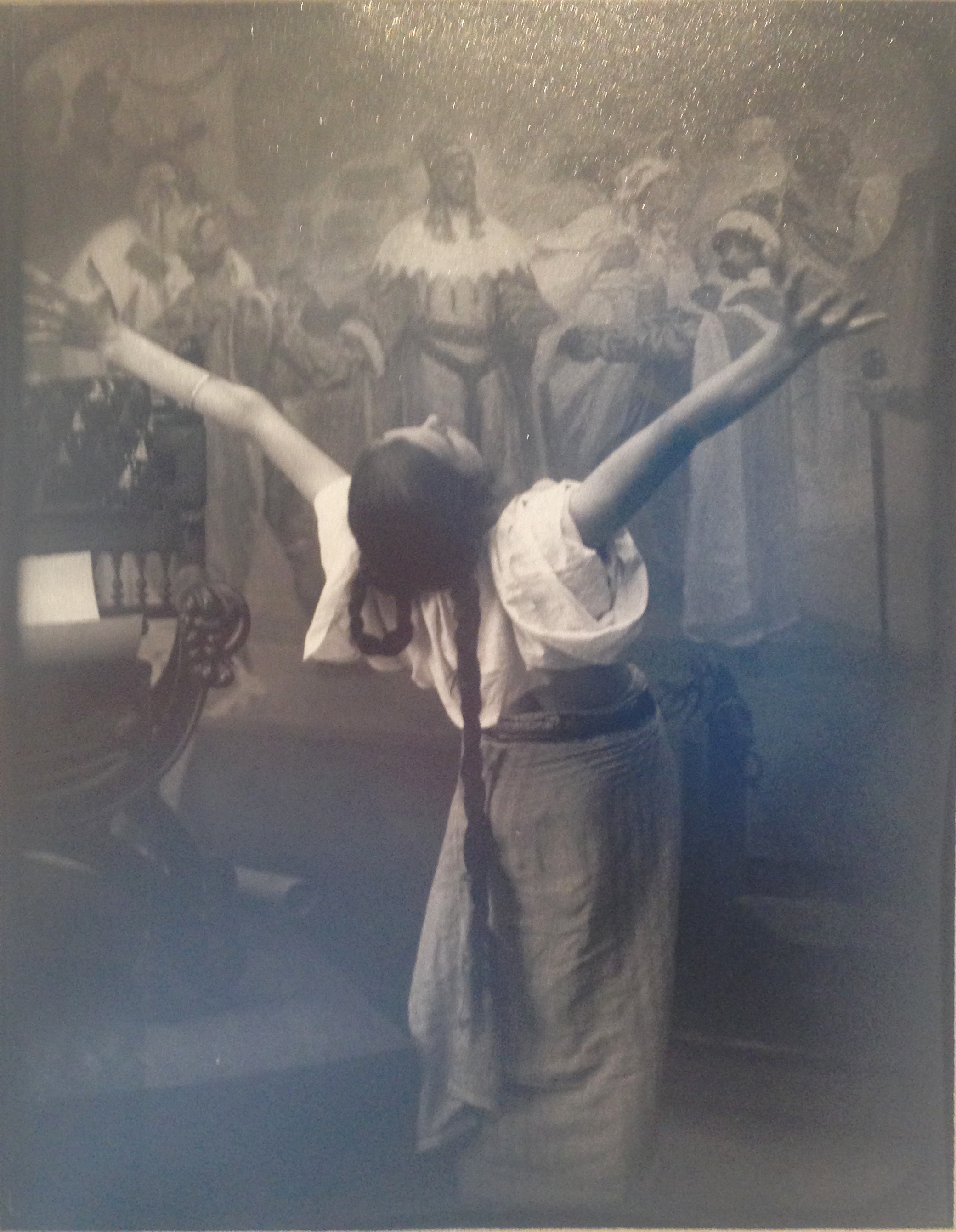 Apotheosis of the Slavs. 1924